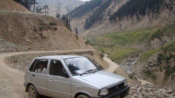 Mehran Car At Lowari Pass Travelling To Chitral